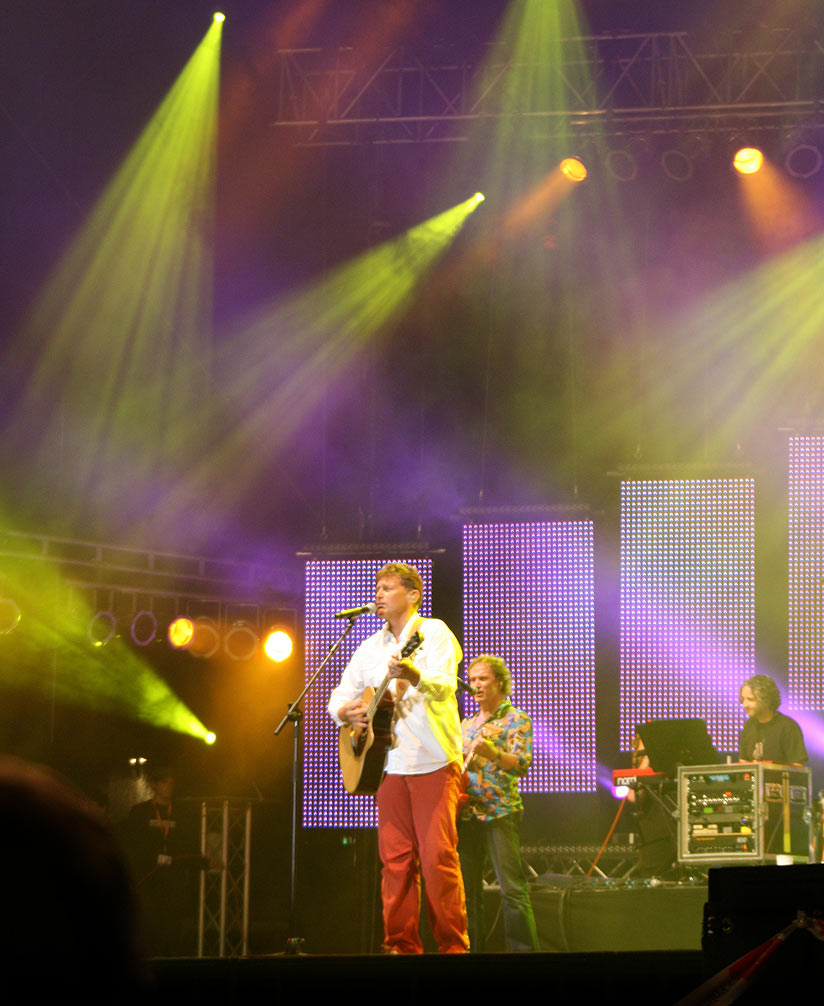 Austrian singer&songwriter Rainhard Fendrich with band, at the Vienna Donauinselfest 2007